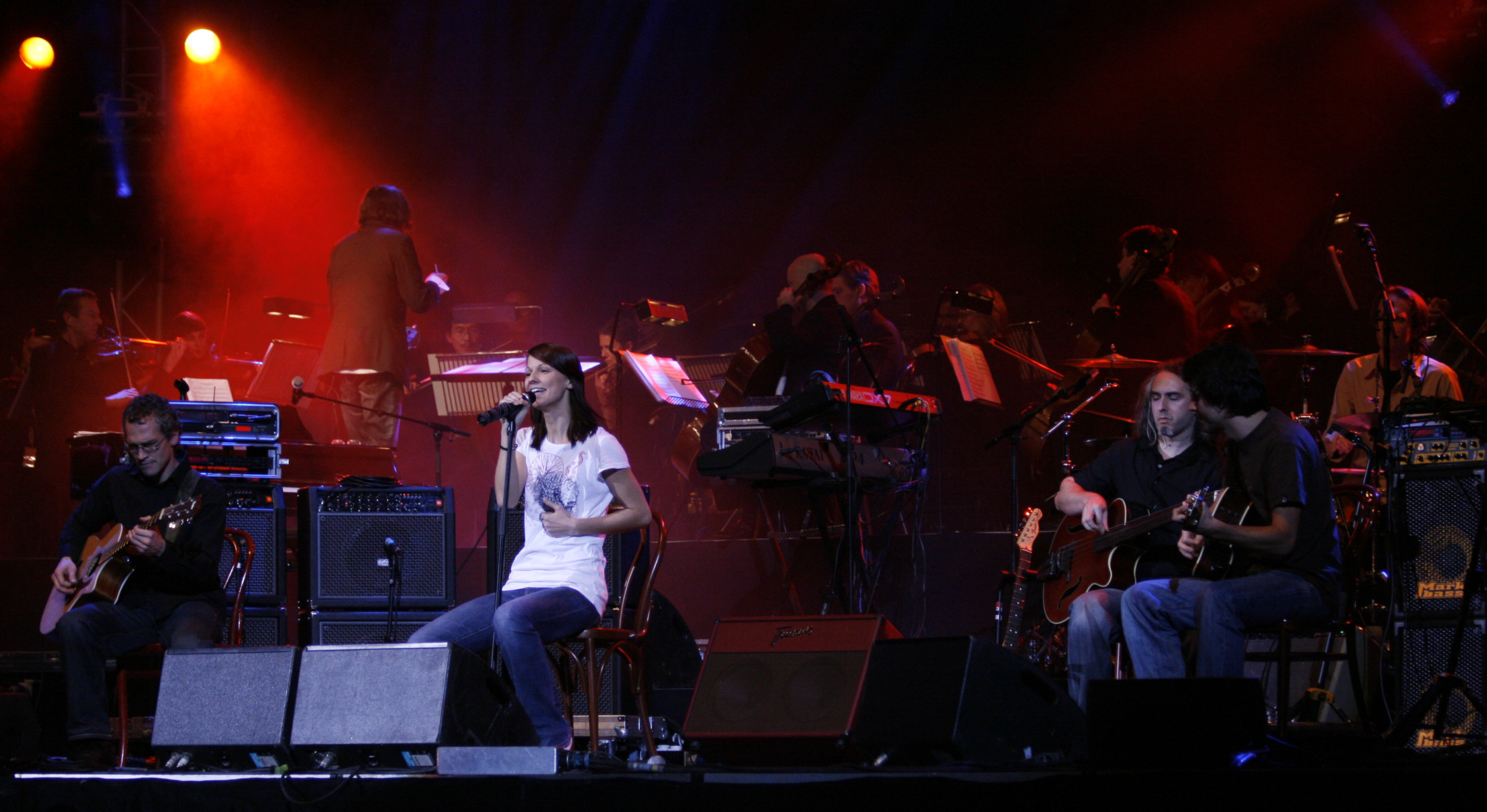 Christina Stürmer and Band with Christian Kolonovits and the Wiener Sinfonie Orchester; charity concert 'atemberaubend 08' in support of researching pulmonary hypertension (lungenhochdruck.at) at the Wiener Stadthalle.